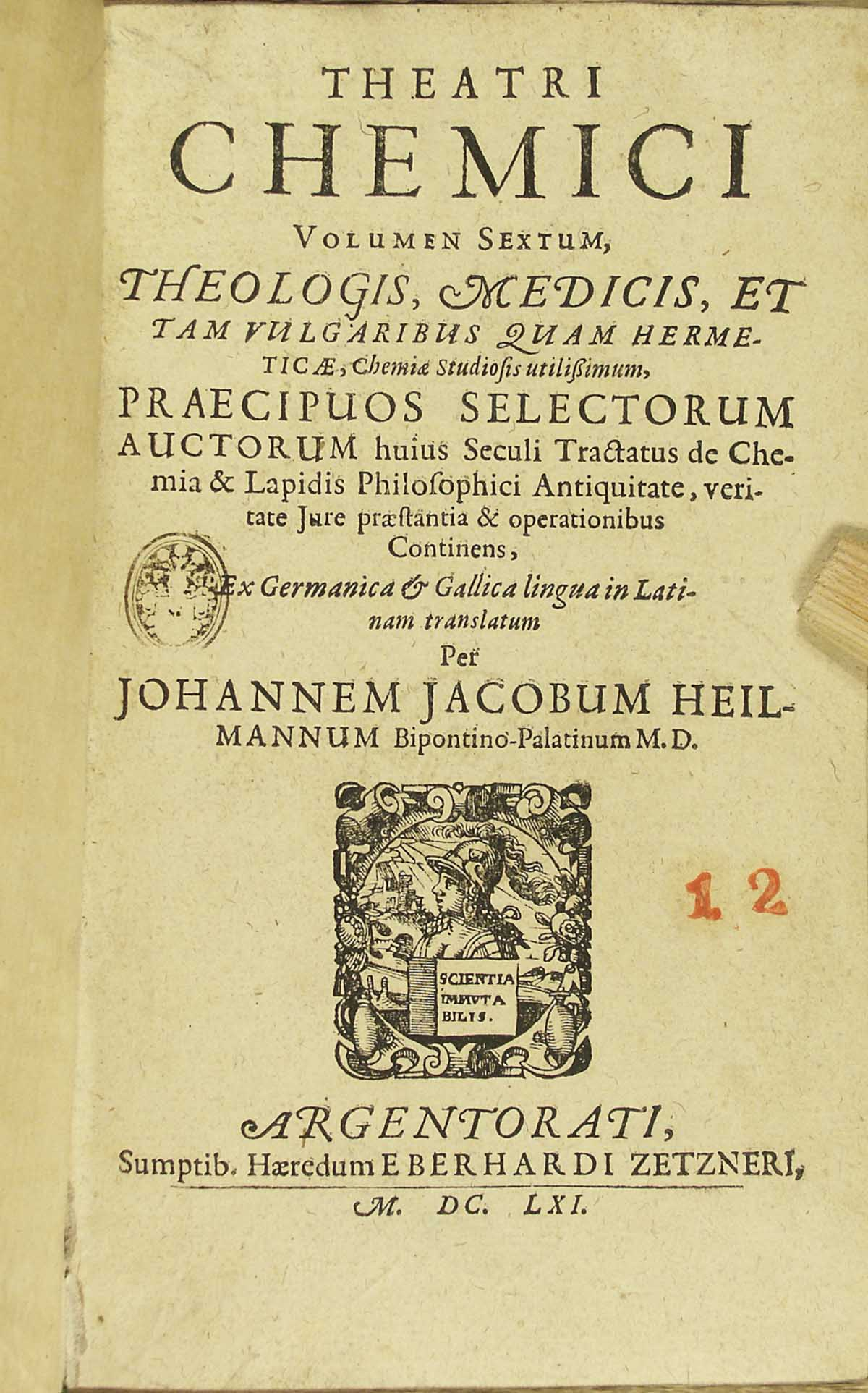 Page 1 of "Theatrum Chemicum", Volume VI, printed 1659-61 in Strasburg, France by Lazarus Zetzner (Zetznerni, Zetznerus)